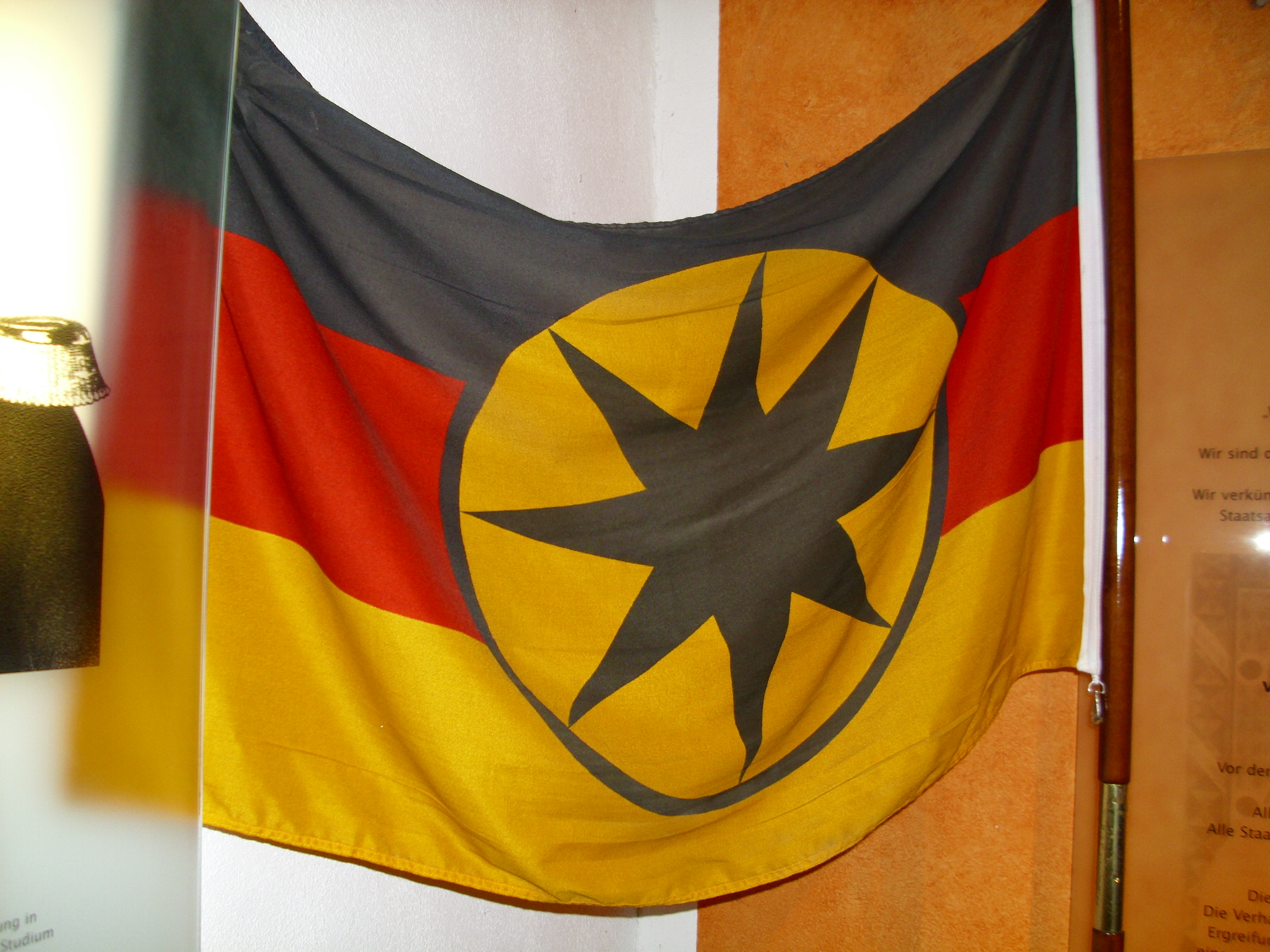 Waldeck flag in museum, Waldeck (Edersee), Germany check usage